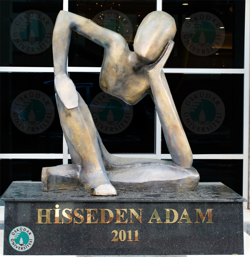 Photo of Statue Commisioned in 2011 in front of Uskudar University Central Campus